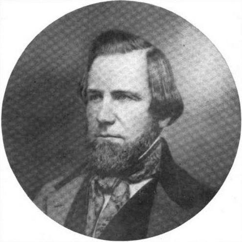 Portrait of William Howe, American architect and engineer who designed and patented the How truss bridge.